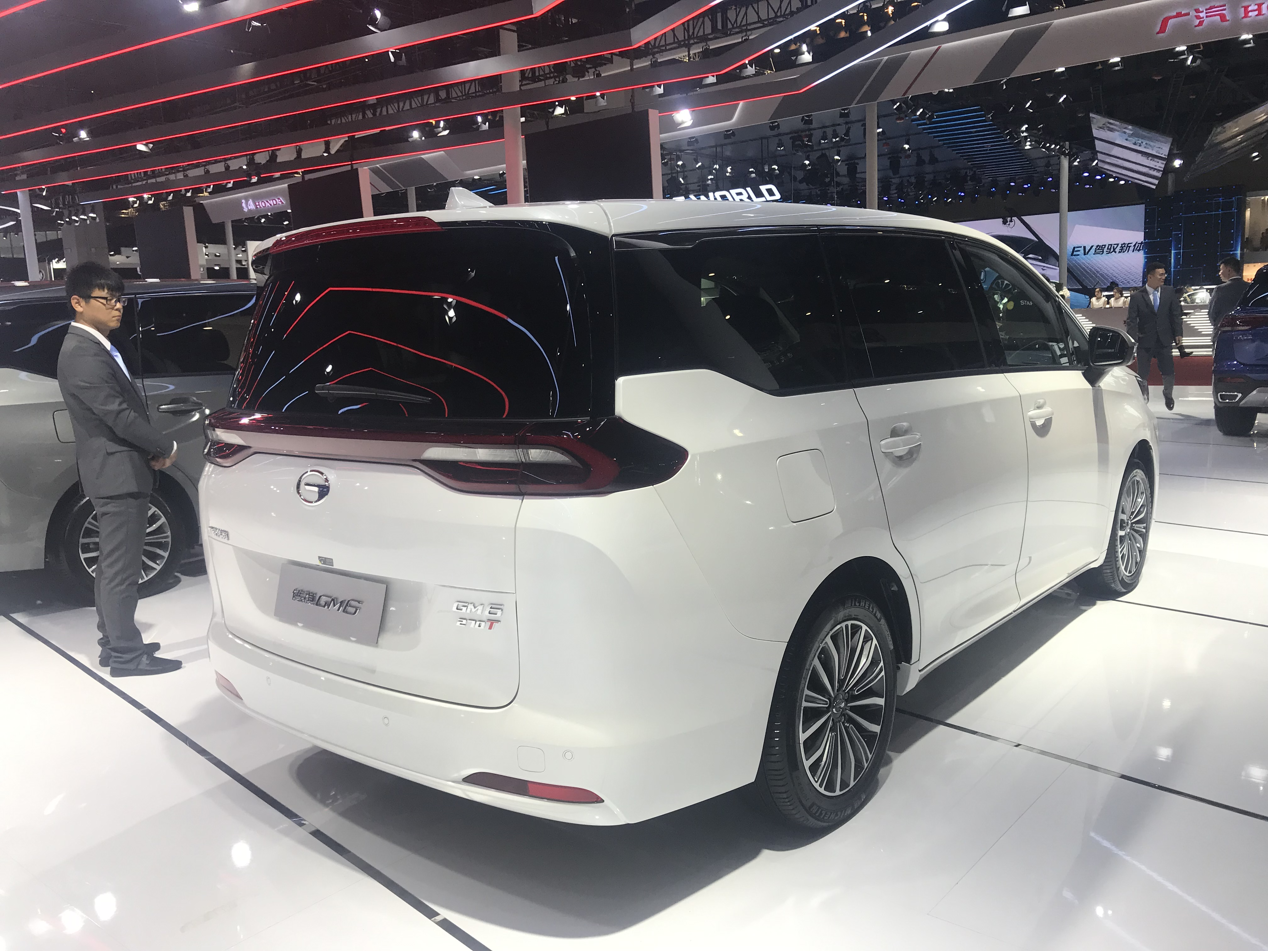 Trumpchi GM6 rear